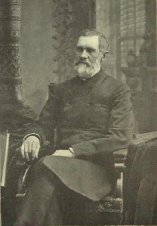 Hart Massey Title: Commemorative biographical record of the county of York, Ontario: containing biographical sketches of prominent and representative citizens and many of the early settled families Creator: J.H. Beers & Co Publisher: Toronto : J.H. Beers & co Date: 1907